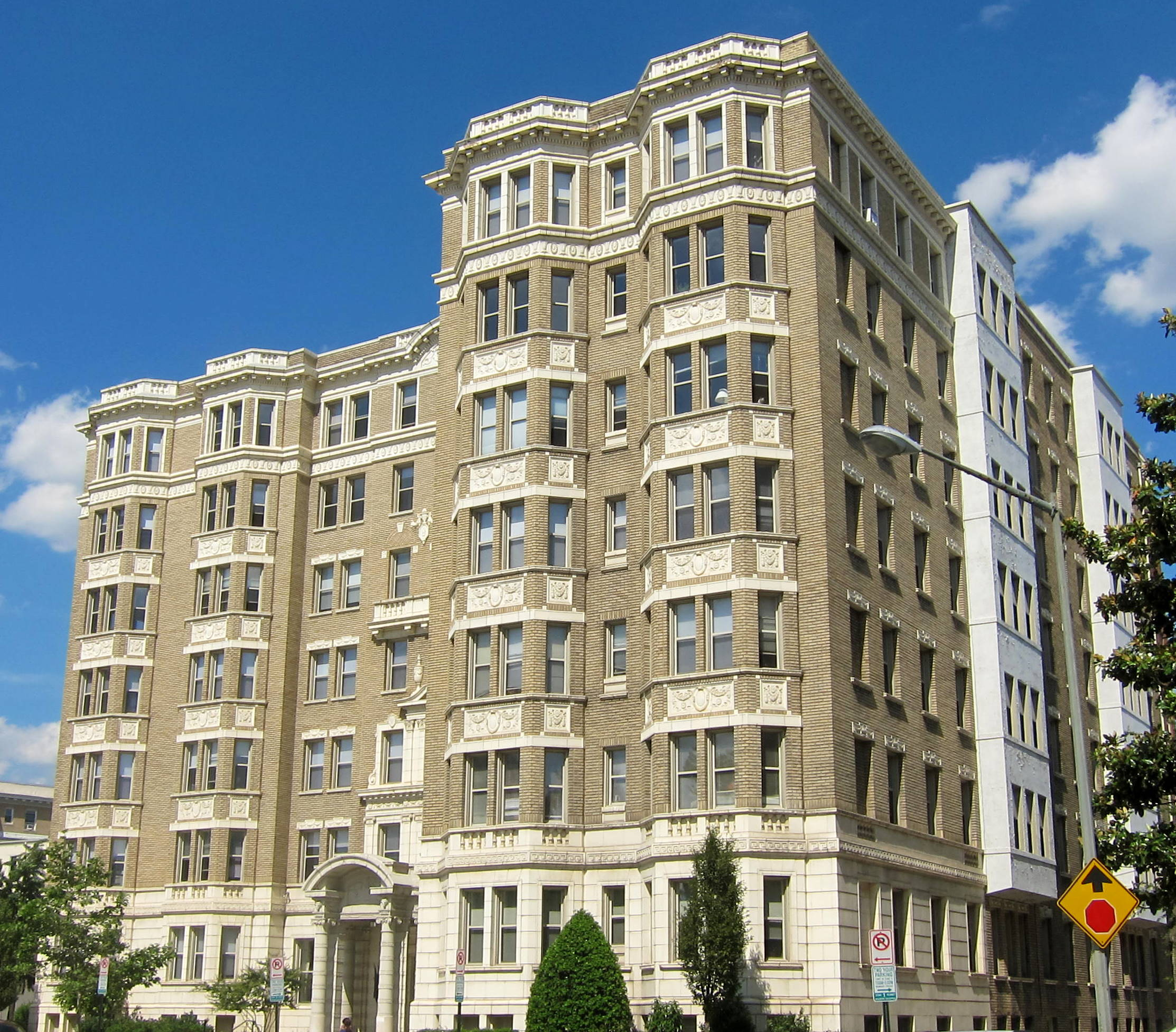 The Norwood located at 1868 Columbia Road, N.W., in the Adams Morgan neighborhood of Washington, D.C. Built in 1916 to the designs of architectural firm Hunter & Bell, the Classical Revival apartment building is designated as a contributing property to the Washington Height Historic District, listed on the National Register of Historic Places in 2006. Former occupants include Major General James B. Aleshire, John H. Bankhead, Tallulah Bankhead, William B. Bankhead, Commander Edwin V. Bookmiller, John L. DeWitt, Judge George E. Downey, Robert B. Howell, Commander T. A. Kearney, Alexander C. King, Josiah A. Van Orsdel, Assistant Surgeon General J. C. Perry, Lewis A. Pick, Brigadier General and Legion of Honor recipient William S. Pierce, Robert F. Rockwell, and John H. Smithwick.